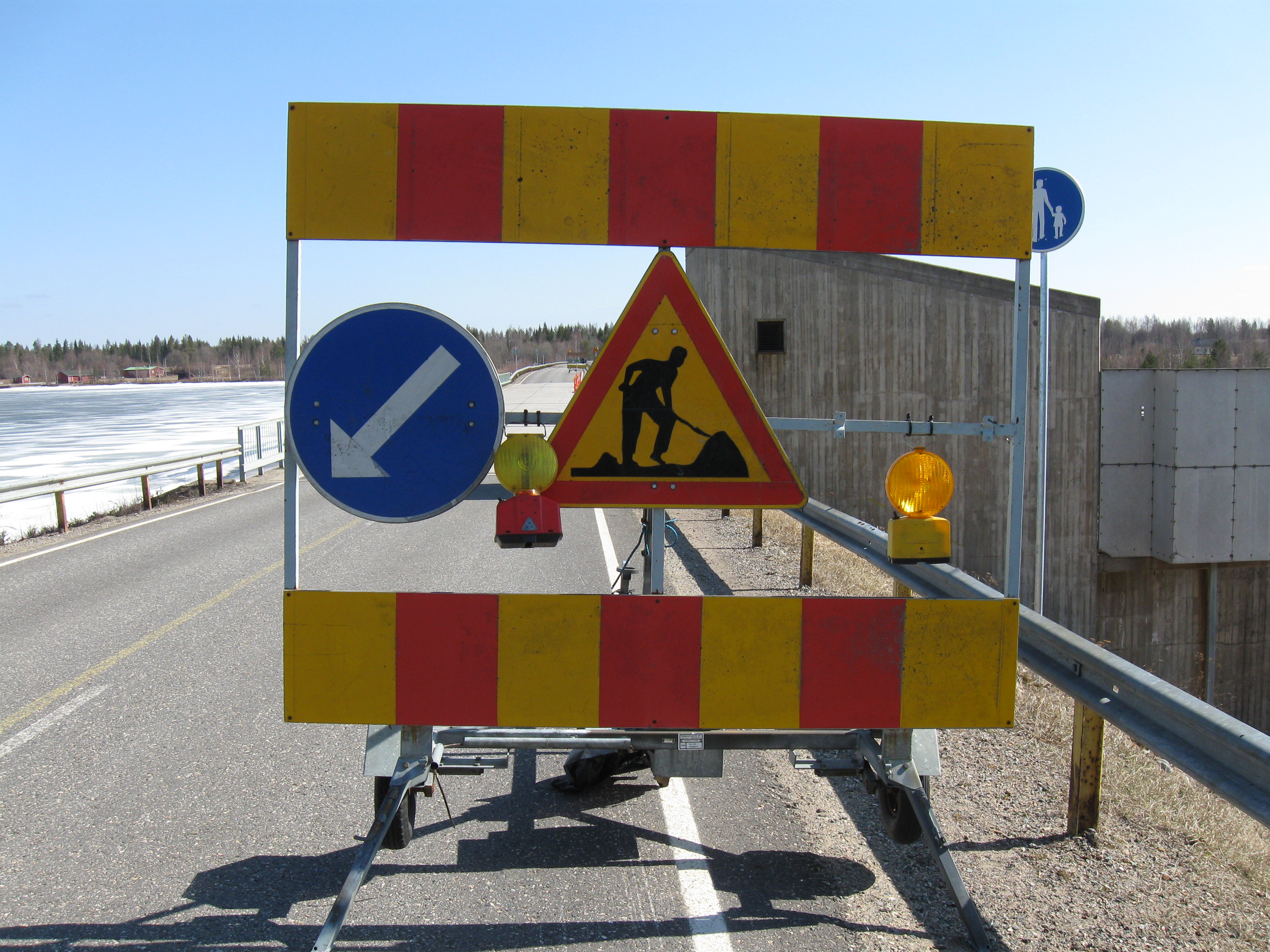 Roadwork signs at the Ossauskoski power plant in Tervola, Finland.